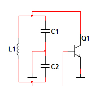 This is the basic electrical circuit for a colpittsoscillator with common emitter